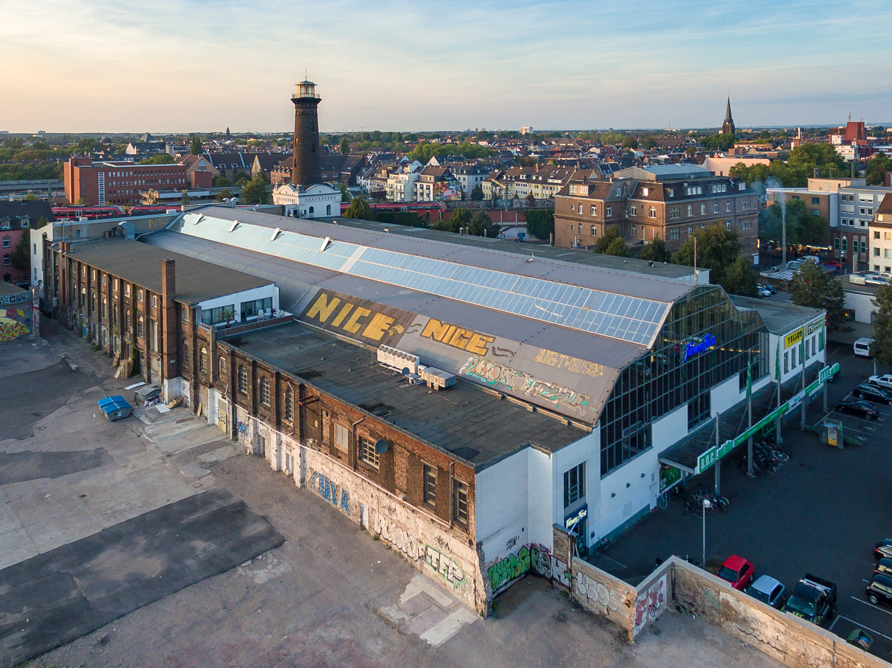 Ancient lighthouse in Cologne-Ehrenfeld